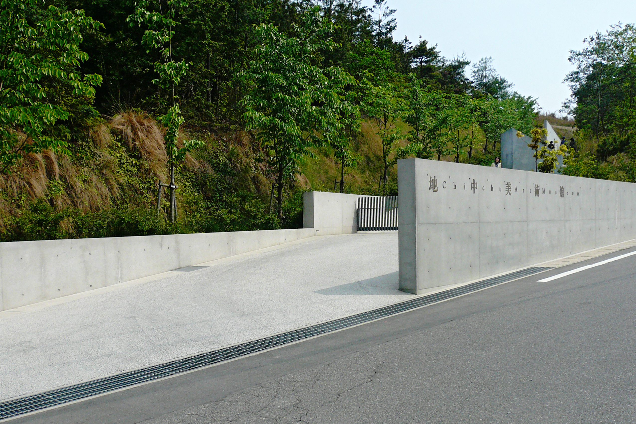 Chichu Art Museum in Naoshima, Kagawa prefecture, Japan